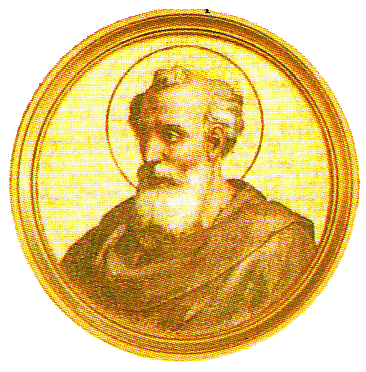 Pope Eleutherius (175-189)